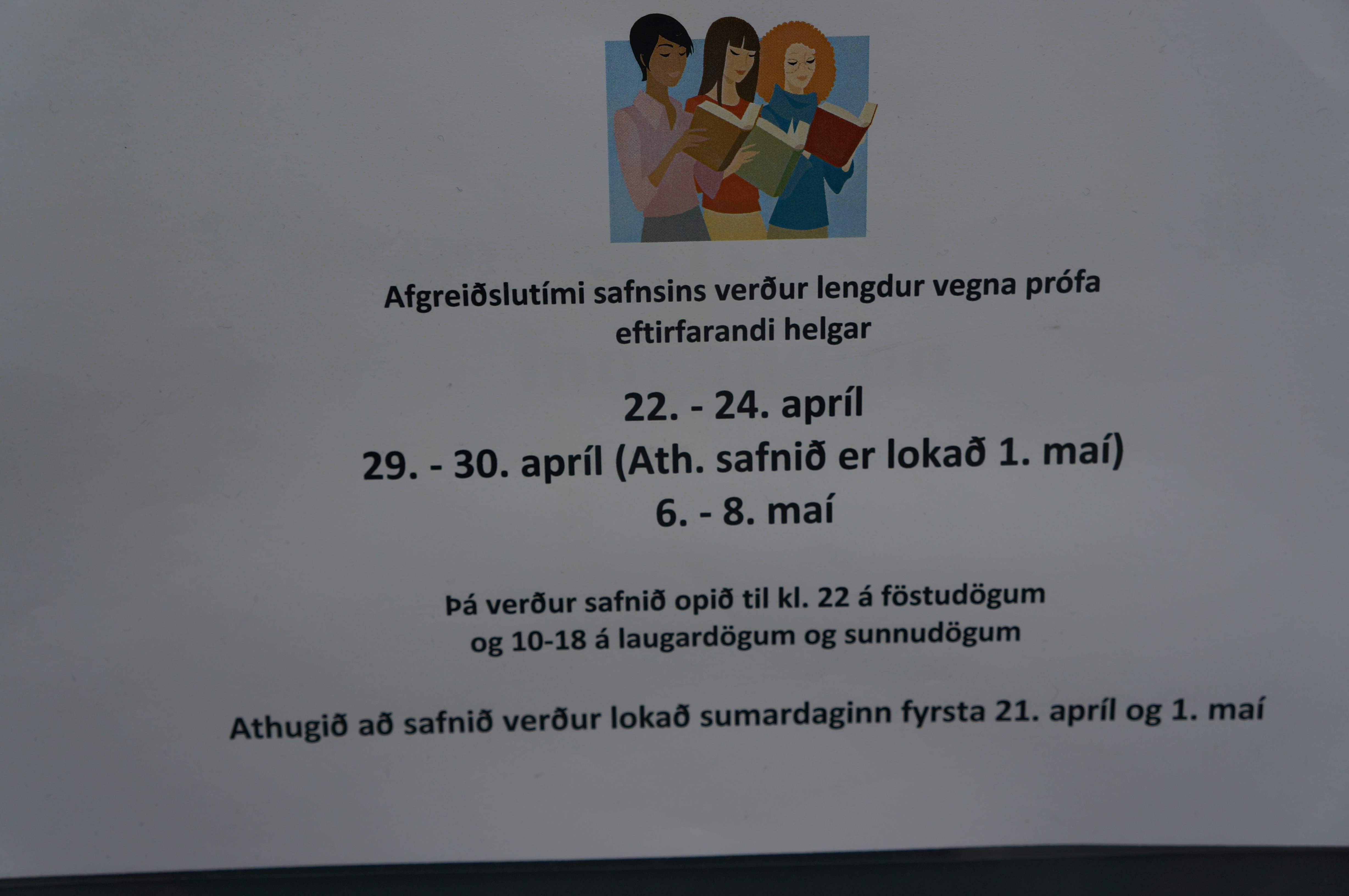 In Iceland, the offices of the University of Iceland's library.